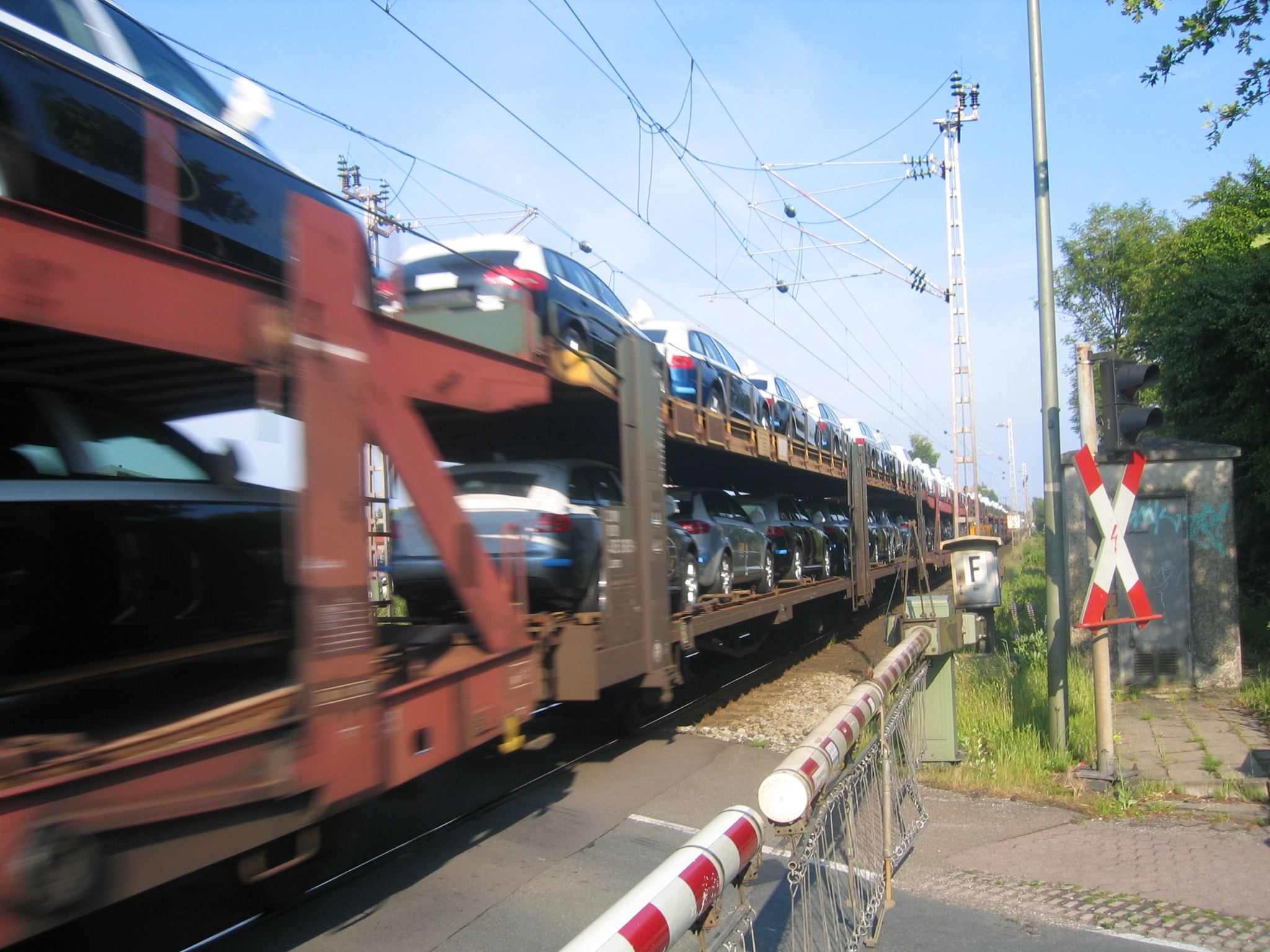 Train in Rödinghausen, District of Herford, North Rhine-Westphalia, Germany.